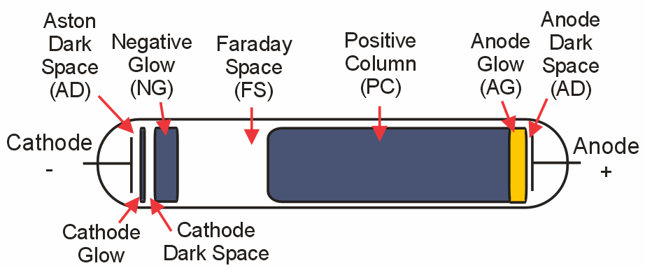 An electric glow discharge tube (Crookes tube) showing the different glowing regions in the gas that appear when a high DC voltage is applied between the electrodes: An anode and cathode at each end Aston dark space Cathode glow Cathode dark space (also called Crookes dark space, or Hittorf dark space) Negative glow (Cathode glow) Faraday dark space Positive column Anode glow Anode dark space (Positive glow)